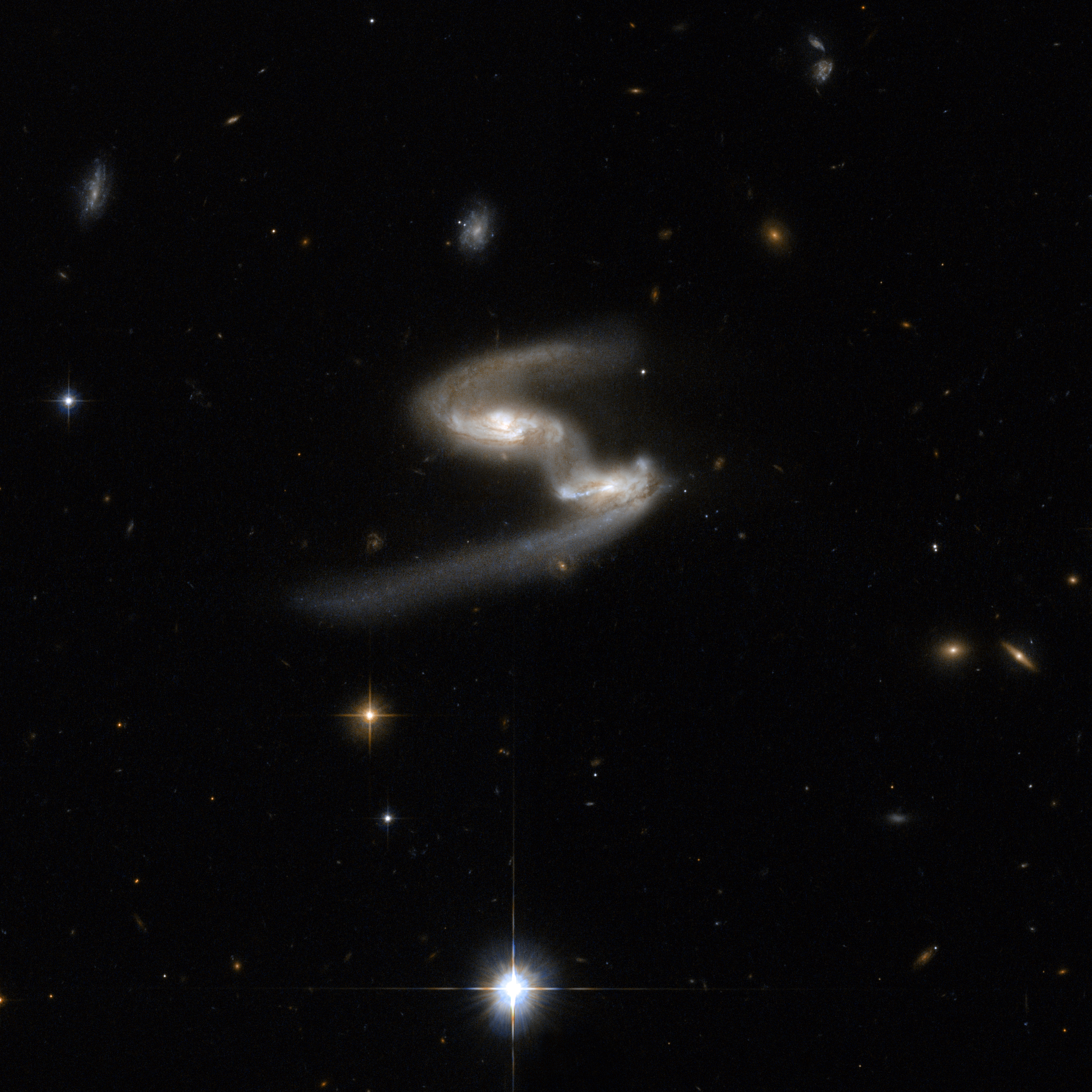 This Hubble image of ESO 77-14 is a stunning snapshot of a celestial dance performed by a pair of similar sized galaxies. Two clear signatures of the gravitational tug of war between the galaxies are the bridge of material that connects them and the disruption of their main bodies. The galaxy on the right has a long, bluish arm while its companion has a shorter, redder arm. This interacting pair is in the constellation of Indus, the Indian, some 550 million light-years away from Earth. The dust lanes between the two galaxy centers show the extent of the distortion to the originally flat disks that have been pulled into three-dimensional shapes. This image is part of a large collection of 59 images of merging galaxies taken by the Hubble Space Telescope and released on the occasion of its 18th anniversary on 24th April 2008. About the objectObject nameESO 77-14, ESO 077-IG014, AM 2317-692Object descriptionInteracting GalaxiesPosition (J2000)23 21 04.61 -69 12 56.5ConstellationIndusDistance550 million light-years (150 million parsecs)About the dataData descriptionThe Hubble image was created using HST data from proposal 10592: A. Evans (University of Virginia, Charlottesville/NRAO/Stony Brook University)InstrumentACS/WFCExposure date(s)August 17, 2001Exposure time39 minutesFiltersF435W (B) and F814W (I)